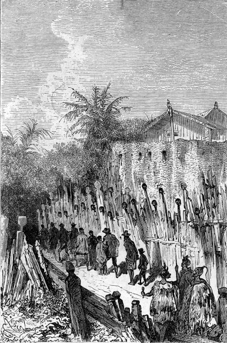 An ilustration from the novel "In Search of the Castaways; or Captain Grant's Children" by Jules Verne drawn by Édouard Riou.